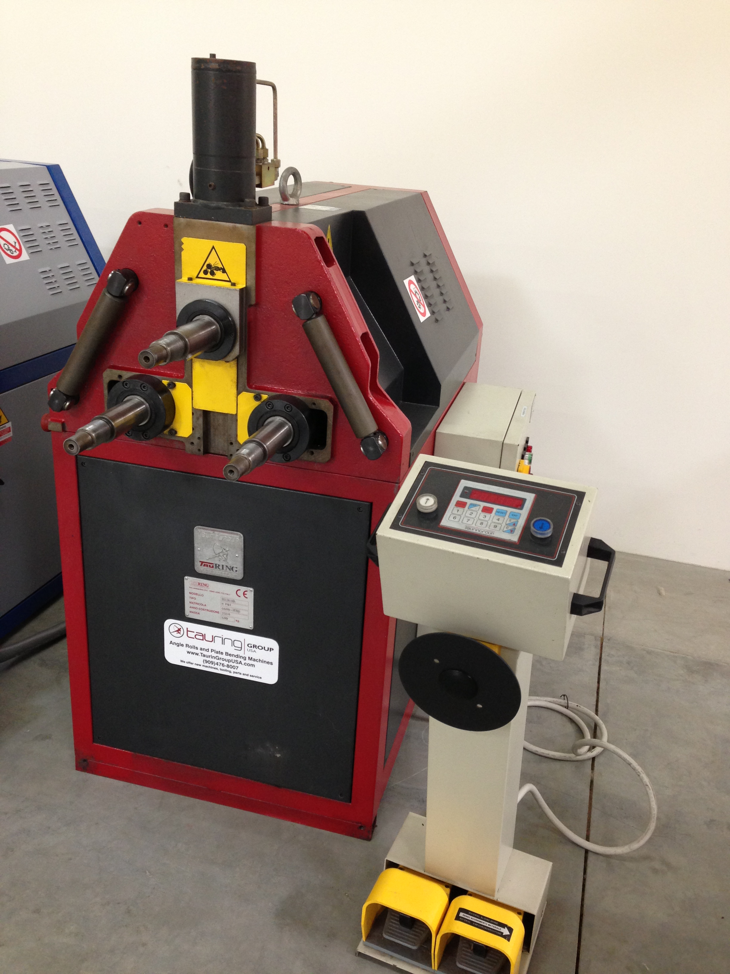 Roll bending machine for bending tube and pipe